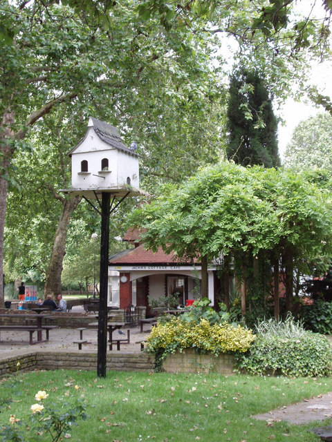 Dovecot in Bishop's Park By the entrance to the park from Bishop's Avenue. Bishop's Park wraps around the palace grounds, and is mainly along the Thames waterfront.